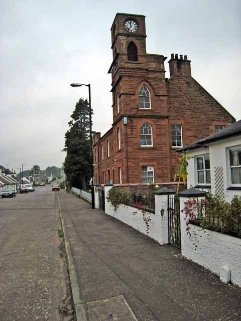 Public hall in Kirkmichael